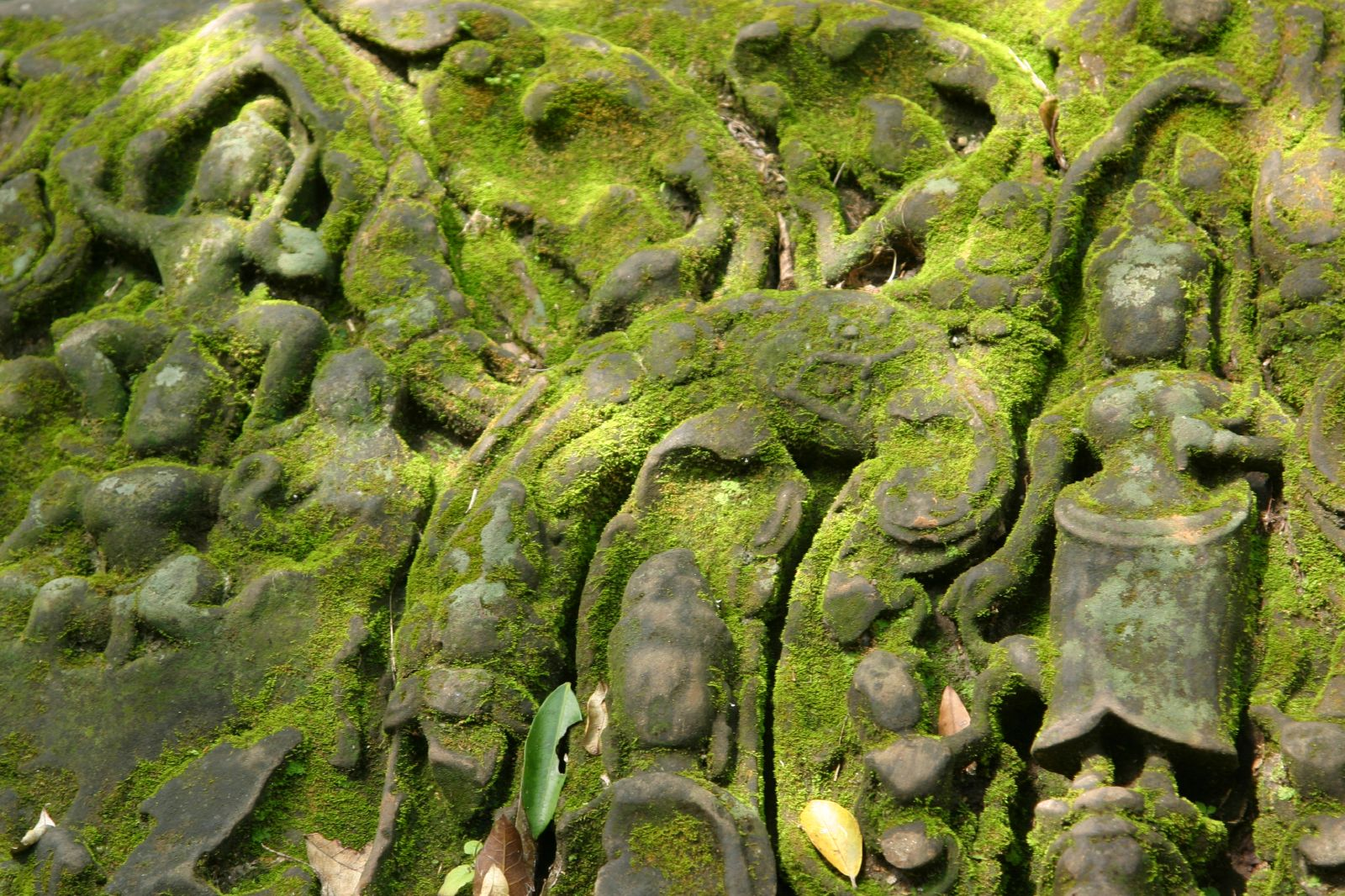 A piece from a fallen stone carving from Beng Mealea temple in Cambodia lying on the jungle floor.